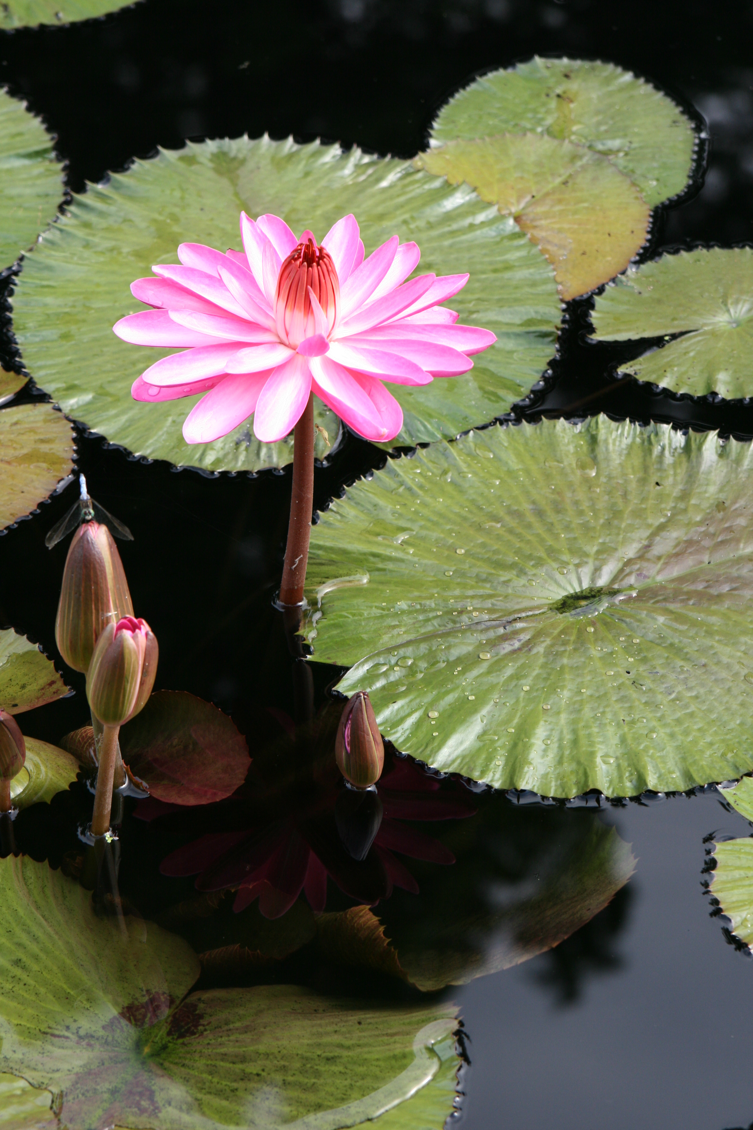 Nymphaea pubescens